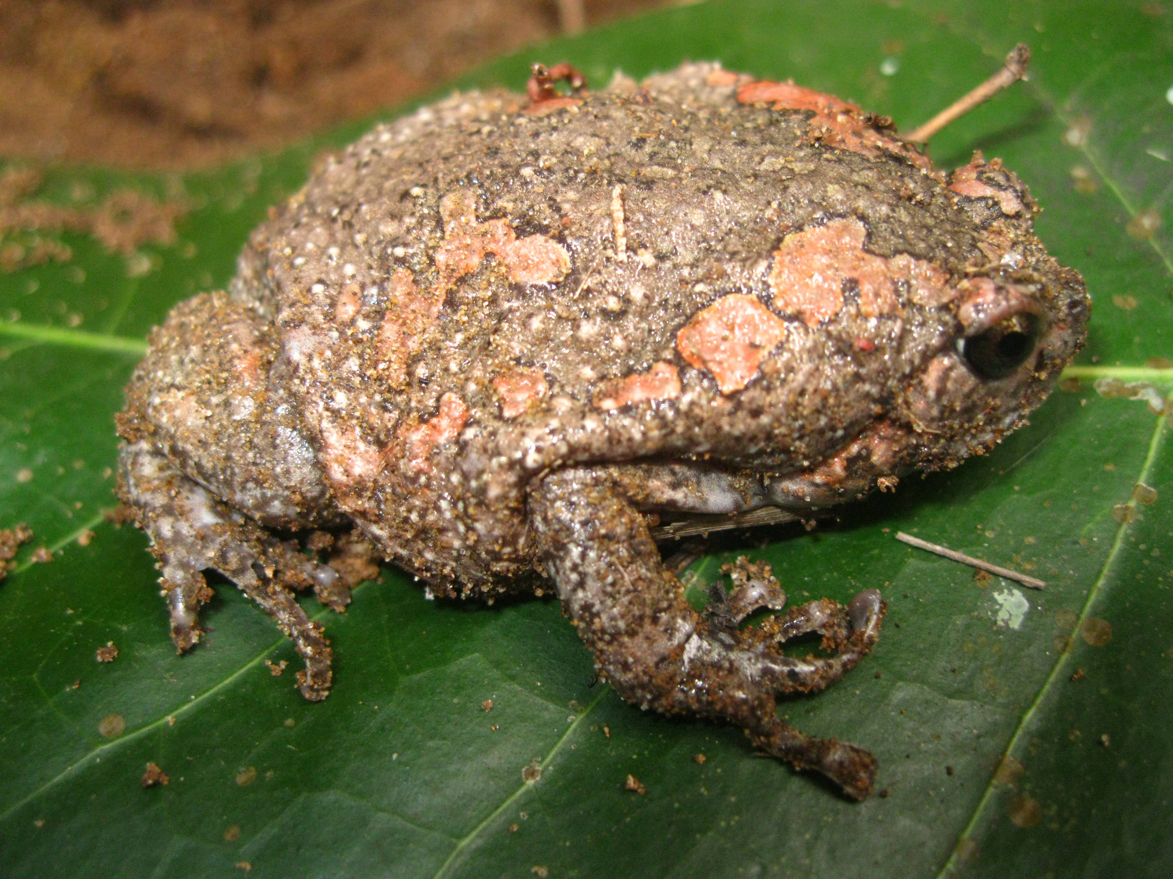 Sri Lankan painted frog,painted frog,found at kannur ,kerala, south india